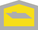 Unit Colour Patch of the Australian 2nd Armoured Brigade's headquarters. References: Glyde, Keith. (1999). Distinguishing Colour Patches of the Australian Military Forces 1915-1951. Reproduced at: [1]